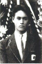 Olympic silver medalist, Tatsugo Kawaishi